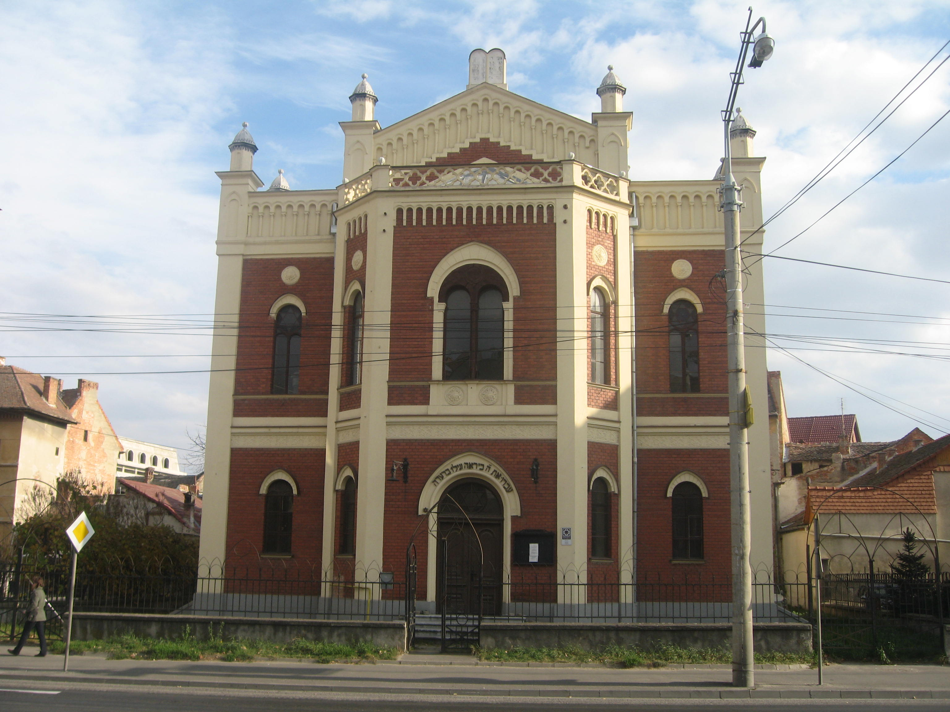 Synagogue of Sibiu